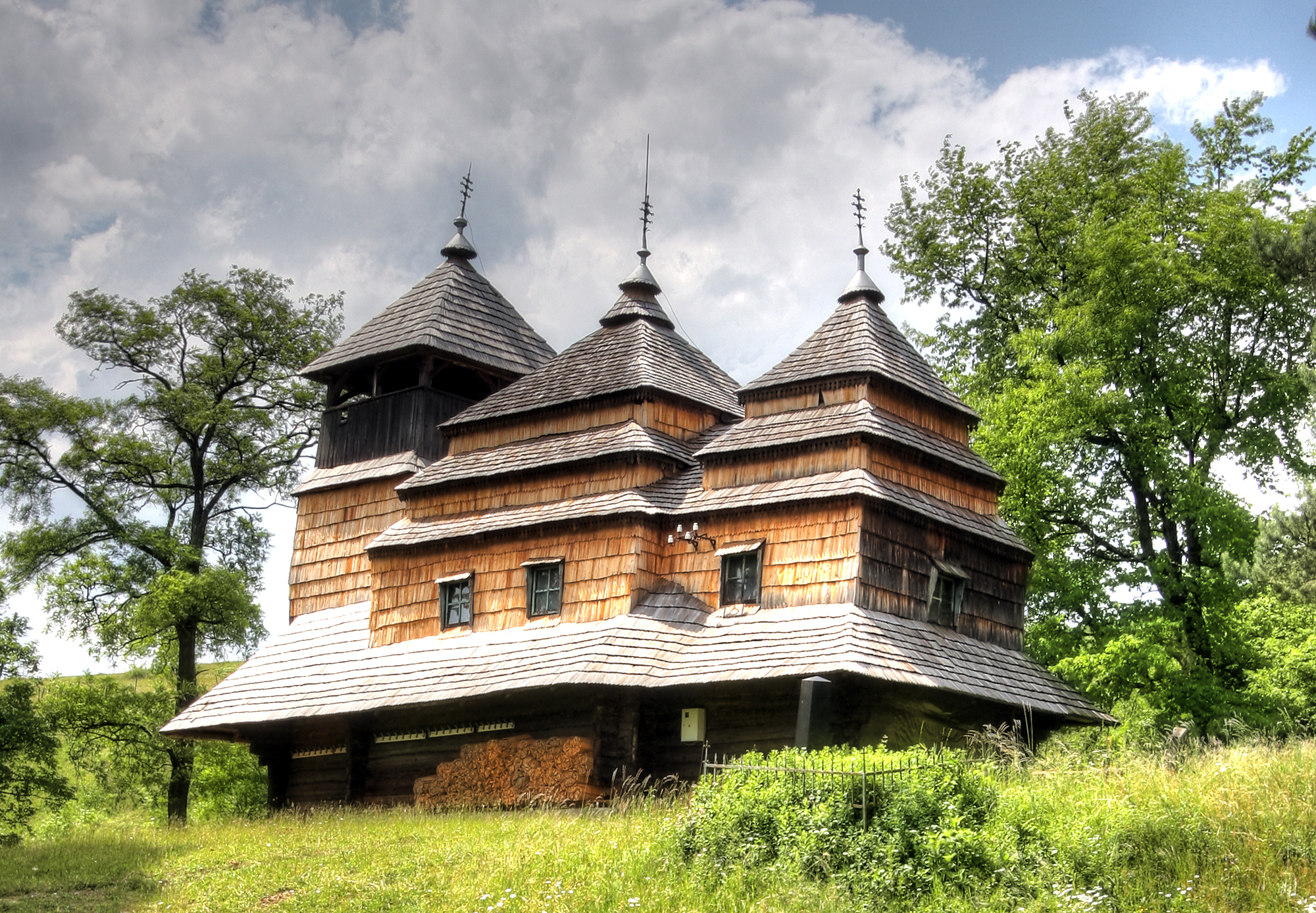 Village of Kostryno/Kostryna, Transcarpathia, Ukraine: Church of the Protection of the Blessed Virgin Mary. Wooden Church, built in 1645, renovated and rebuilt in 1761 (Ukrainian Orthodox Church)